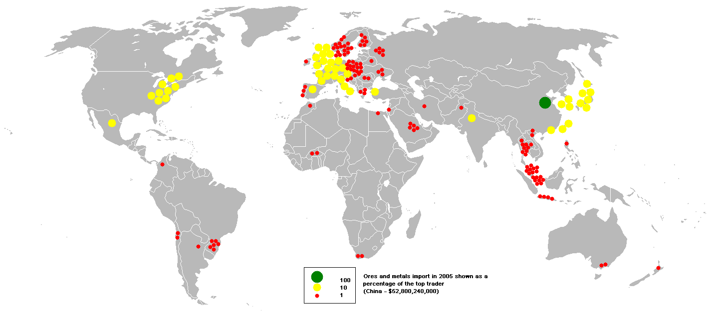 This bubble map shows the global distribution of imports of ores and metals in 2005 as a percentage of the top trader (China - $52,800,240,000). This map is consistent with incomplete set of data too as long as the top trader is known. It resolves the accessibility issues faced by colour-coded maps that may not be properly rendered in old computer screens. Data was extracted on 22nd June 2007 from Based on :Image:BlankMap-World.png